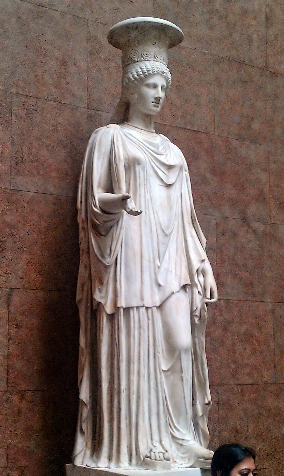 Height: 2.2 metres Pentelic marble caryatid: a woman dressed to take part in religious rites. Excavated/Findspot Via Appia (Europe,Italy,Lazio,Roma (province),Via Appia)